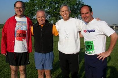 Jim Cooper, Bob Corker, Bart Gordon, Zach Wamp at the ACLI Capital Race Challenge.